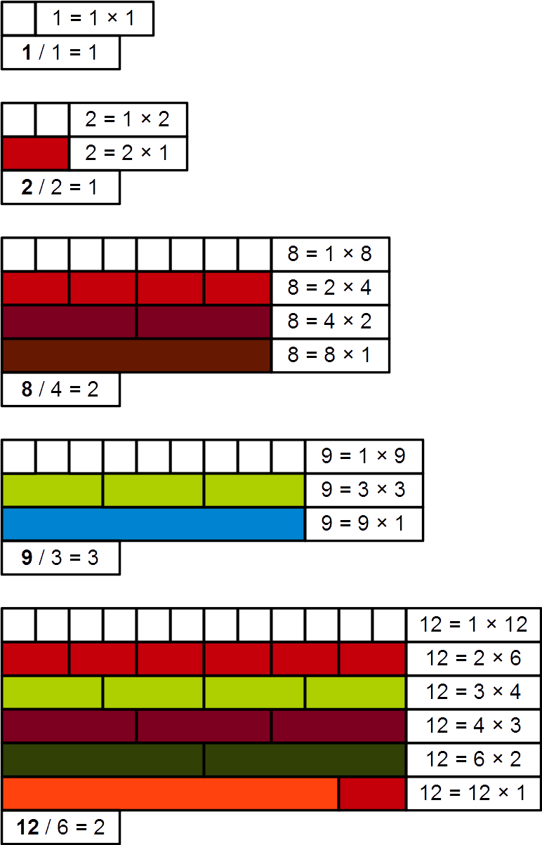 Showing, through Cuisenaire rods, that 1, 2, 8, 9, and 12 are refactorable numbers.